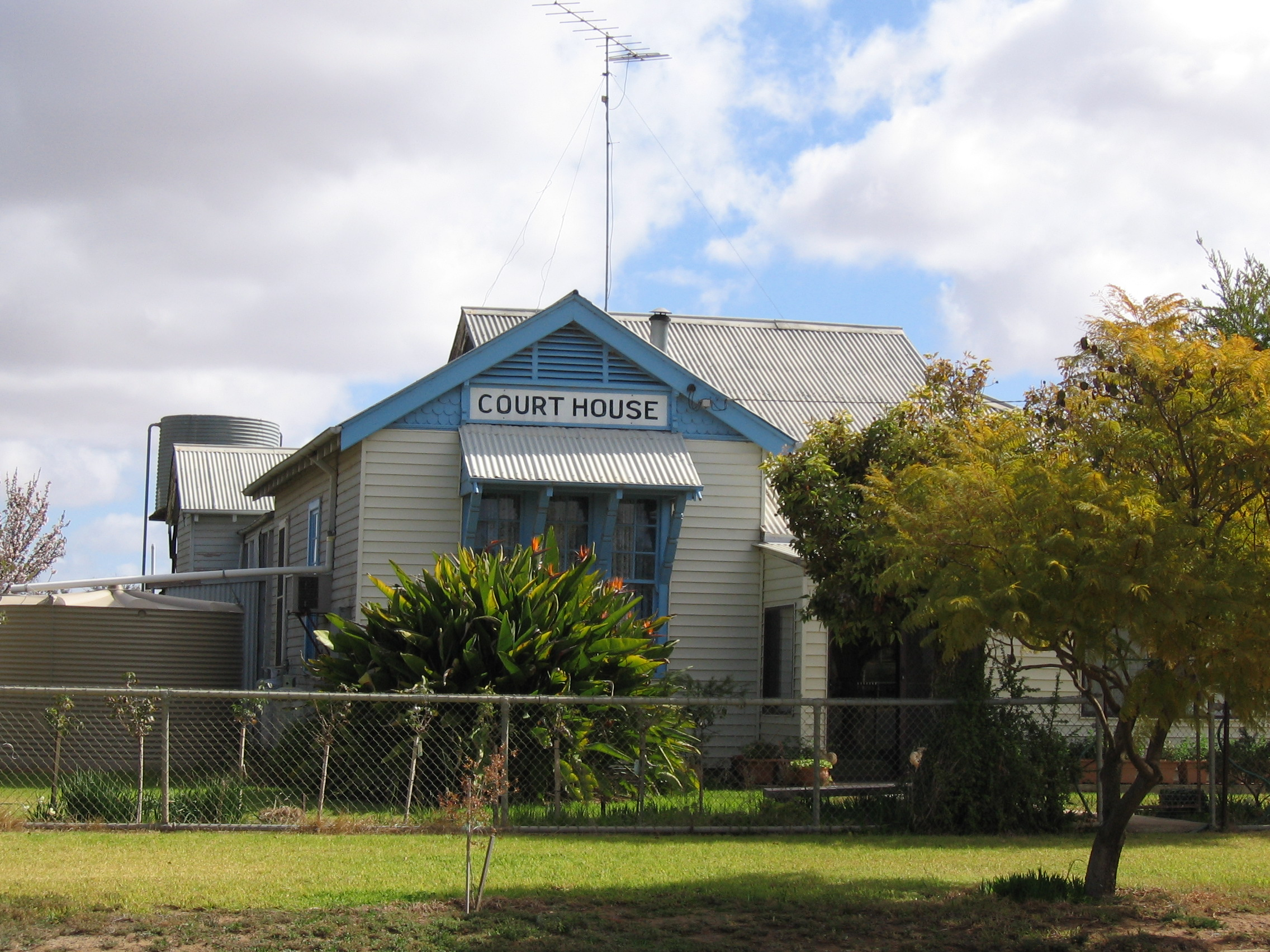 Court house at Booligal, New South Wales